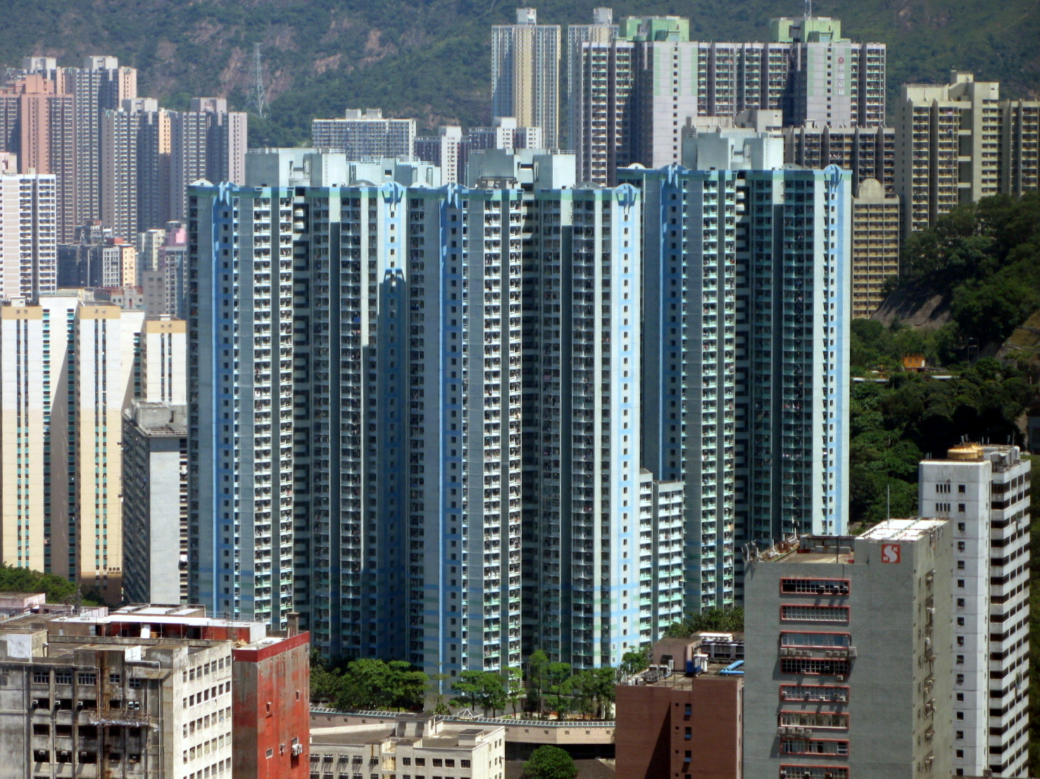 Tai Wo Hau Estate Harmony Block 大窩口邨和諧式大廈